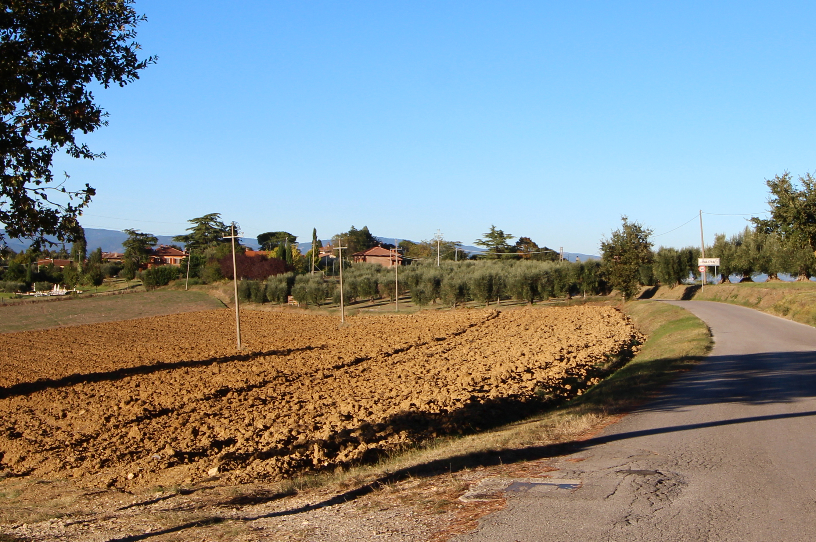 Badia, hamlet of Castiglione del Lago, Province of Perugia, Tuscany, Italy